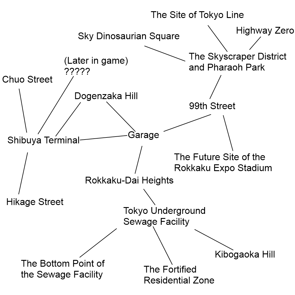 A graphic organization of areas in Jet Set Radio Future.